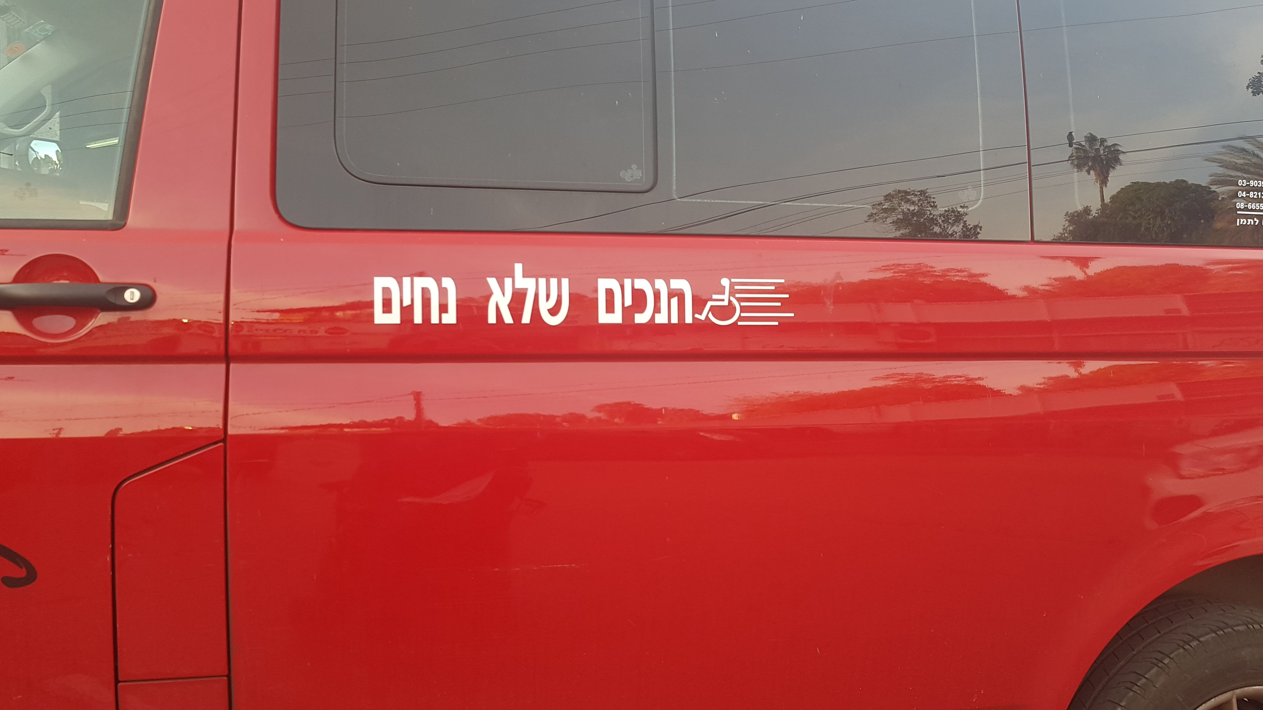 Logo of The Disabled people who do not rest. Logo credit: Hanna Akiva, Israel.